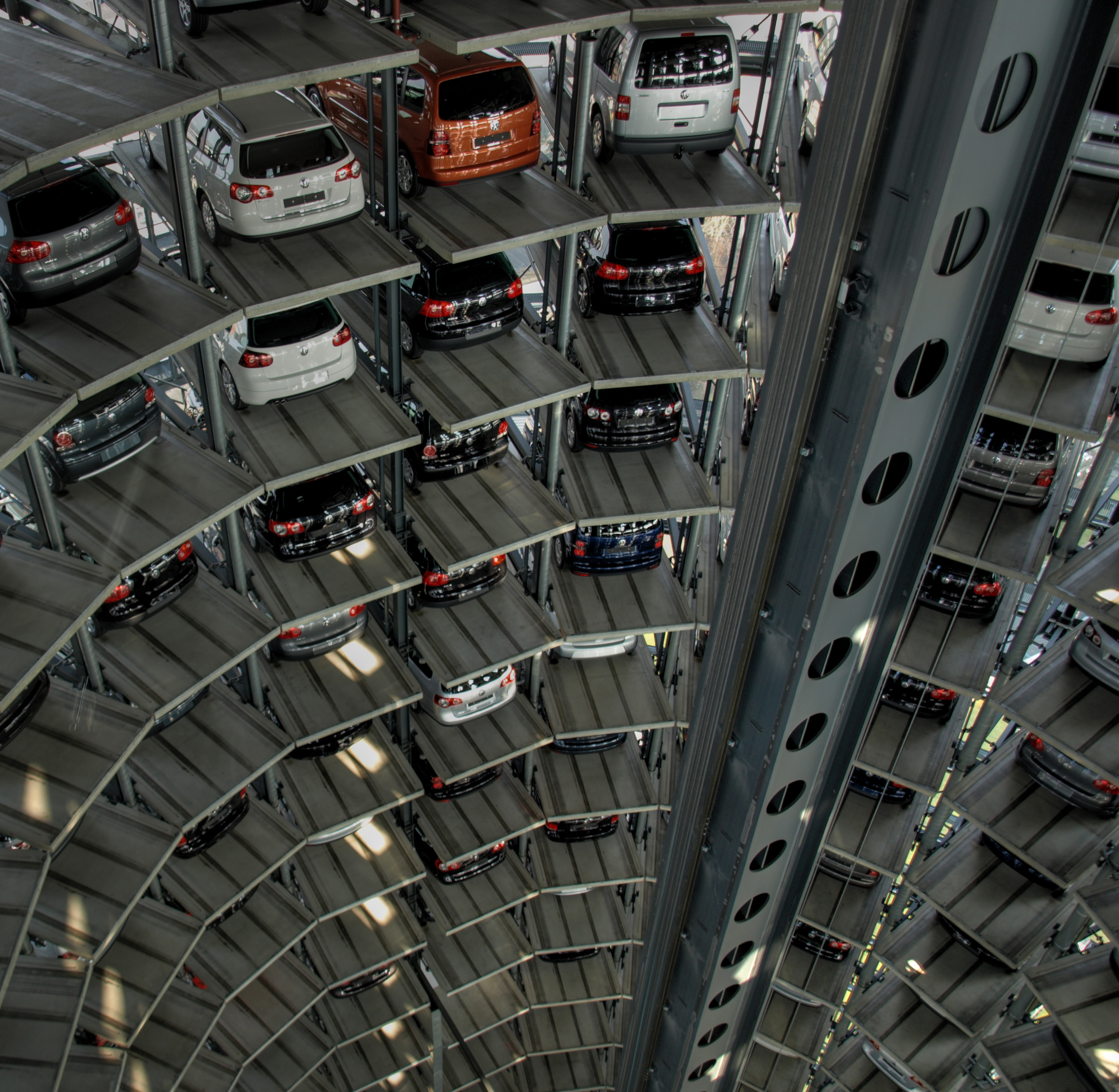 The storagetowers of the Autostadt (cartown) in Wolfsburg, Germany from the inside. Volkswagen